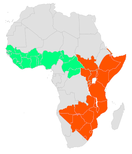 I added more of the black mambas range in Africa (in red), while the light green is its possible range in Western and Central Africa. The range is based on leading herpetologist Charles Pitman and CITES.